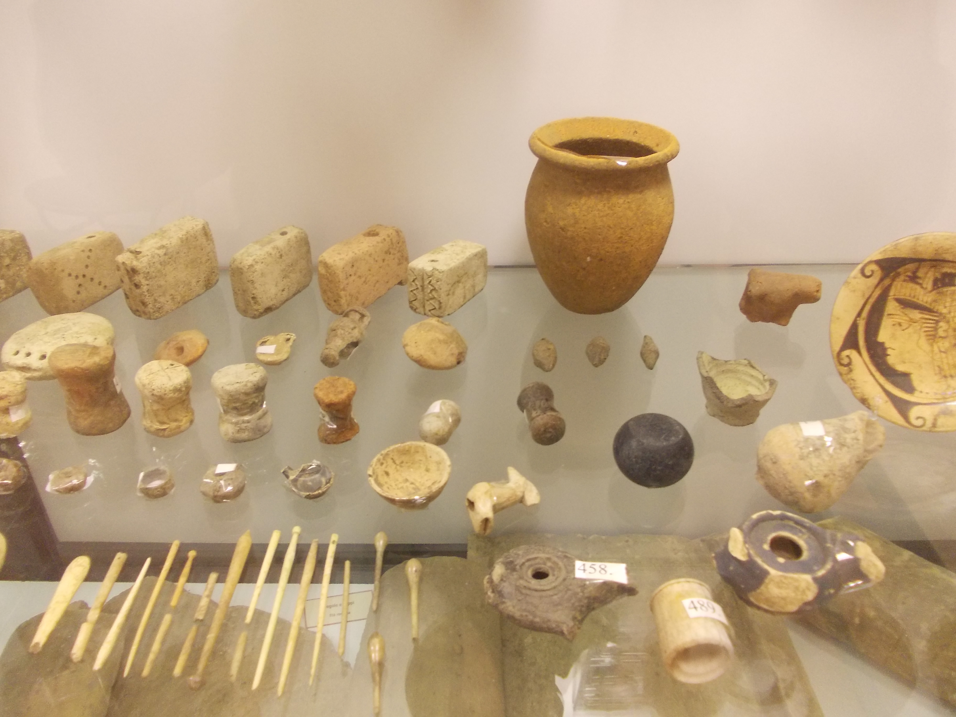 Sermoneta Pottery Museum. Relics